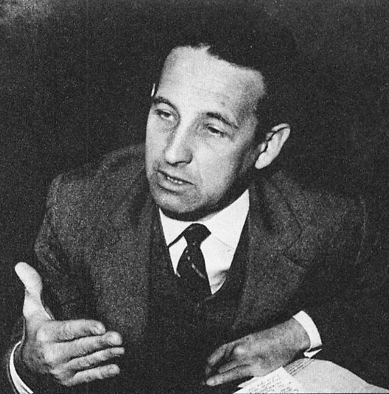 Polish director Andrzej Wajda at the 4th General Congress of the Polish Filmmakers Association (1978).